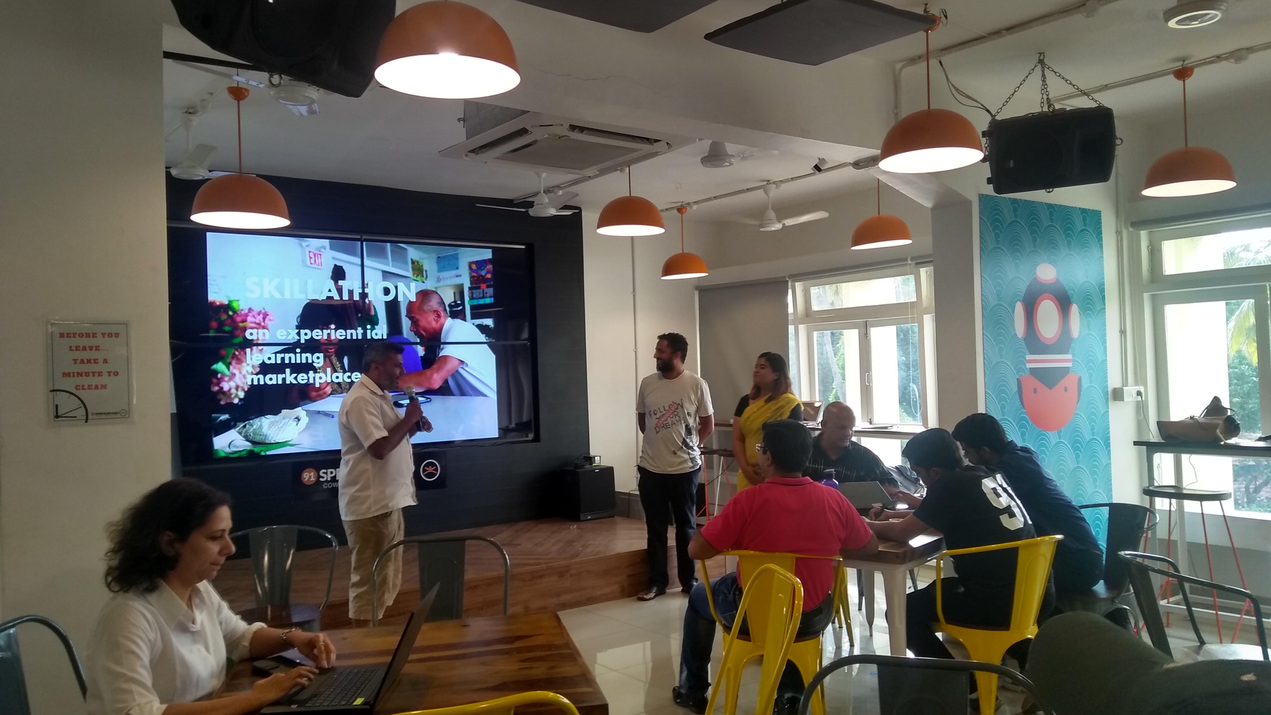 Held at 91Sprinboard in Panjim. The focus of the Goa event was for hackers, engineers, designers, business development enthusiasts and others to use technology to meet social challenges pertaining to the education sector. A number of local and other start-ups participated.